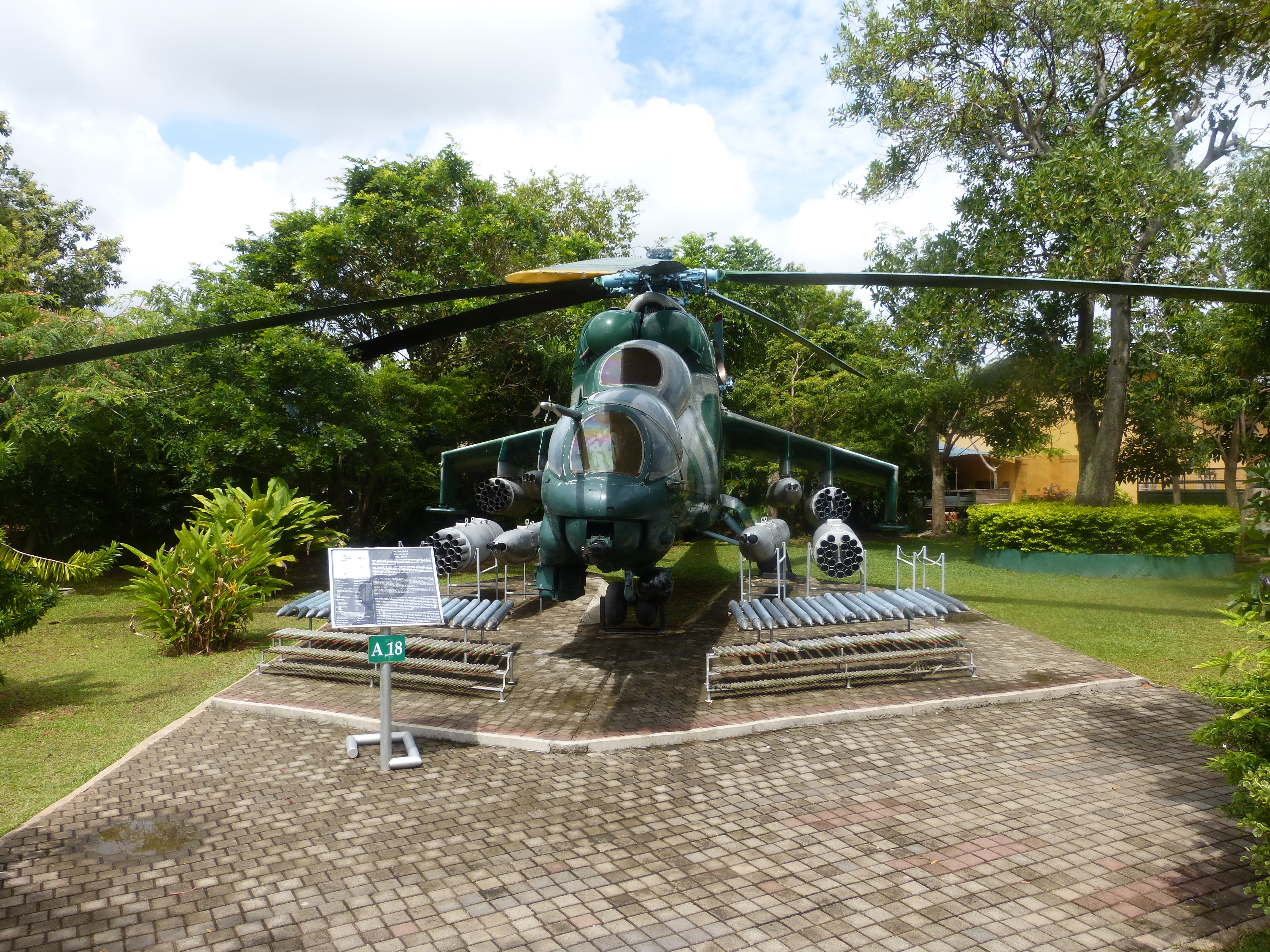 Mil-24 at the Sri Lankan Air Force Museum.